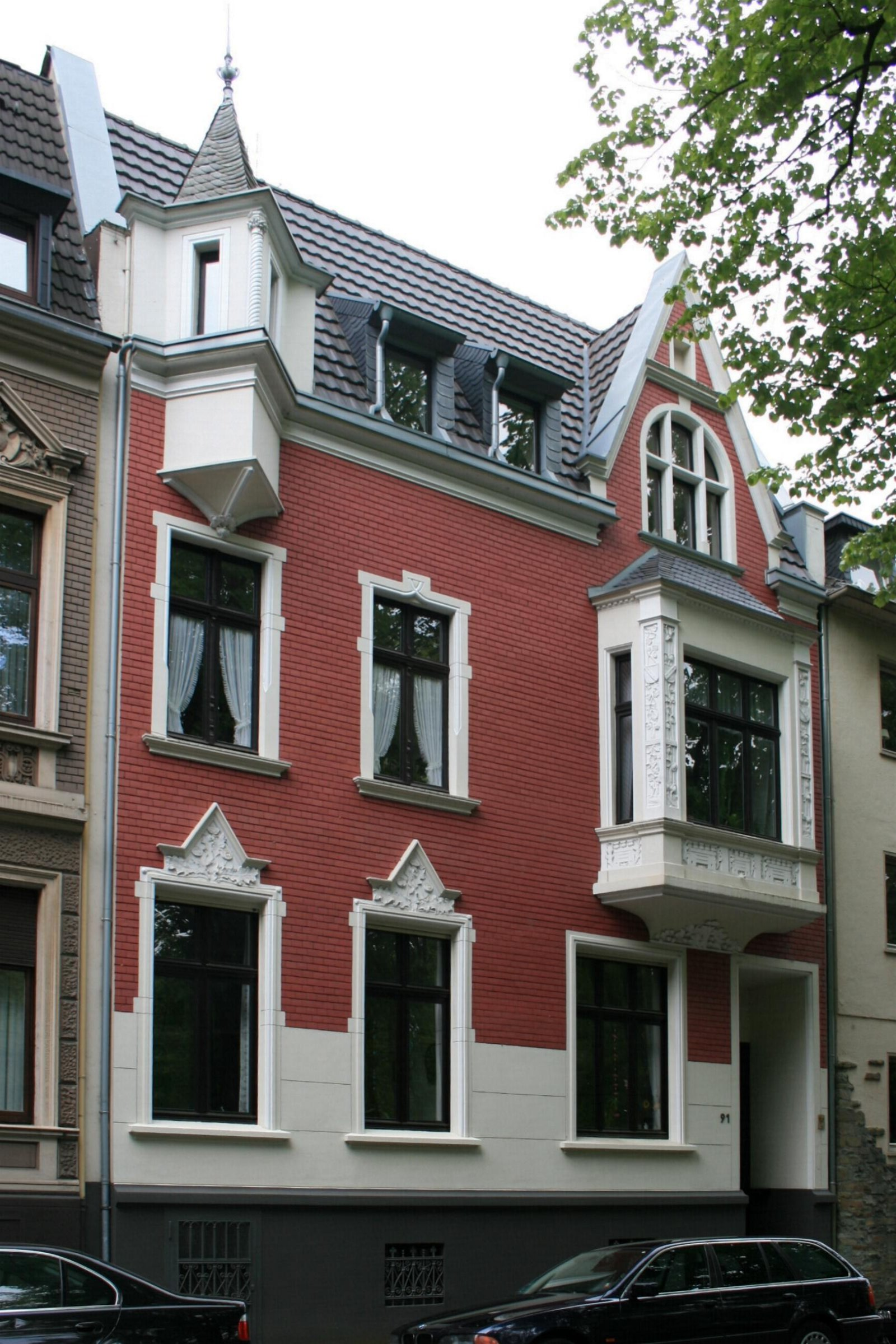 Cultural heritage monument No. B 046 in Mönchengladbach